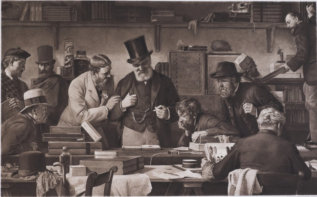 Author's photograph, from Pictures and Drawings Selected from the Works of Edward Armitage, 1898 The figure in a top hat standing in the centre and holding a cigarette is a self portrait of the painter Edward Armitage who was a Fellow of the Entomological Society of London. He is surrounded by his friends P.H. Calderon, J.E. Hodgson, F.A. Winkfield and others." "Beati possidentes" is Latin and means "blessed are the owners". The painting was shown at the Paris Salon in 1879 as no 71 'Apres une vente entomologique: felicitations et regards'. The insect collection is most likely that of Edwin Brown of Burton on Trent.